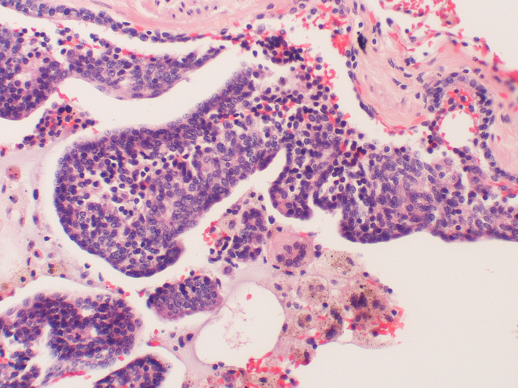 Proliferation of neuroendocrine cells within a terminal bronchiole. Growth is intralumenal forming papillary-like structures.